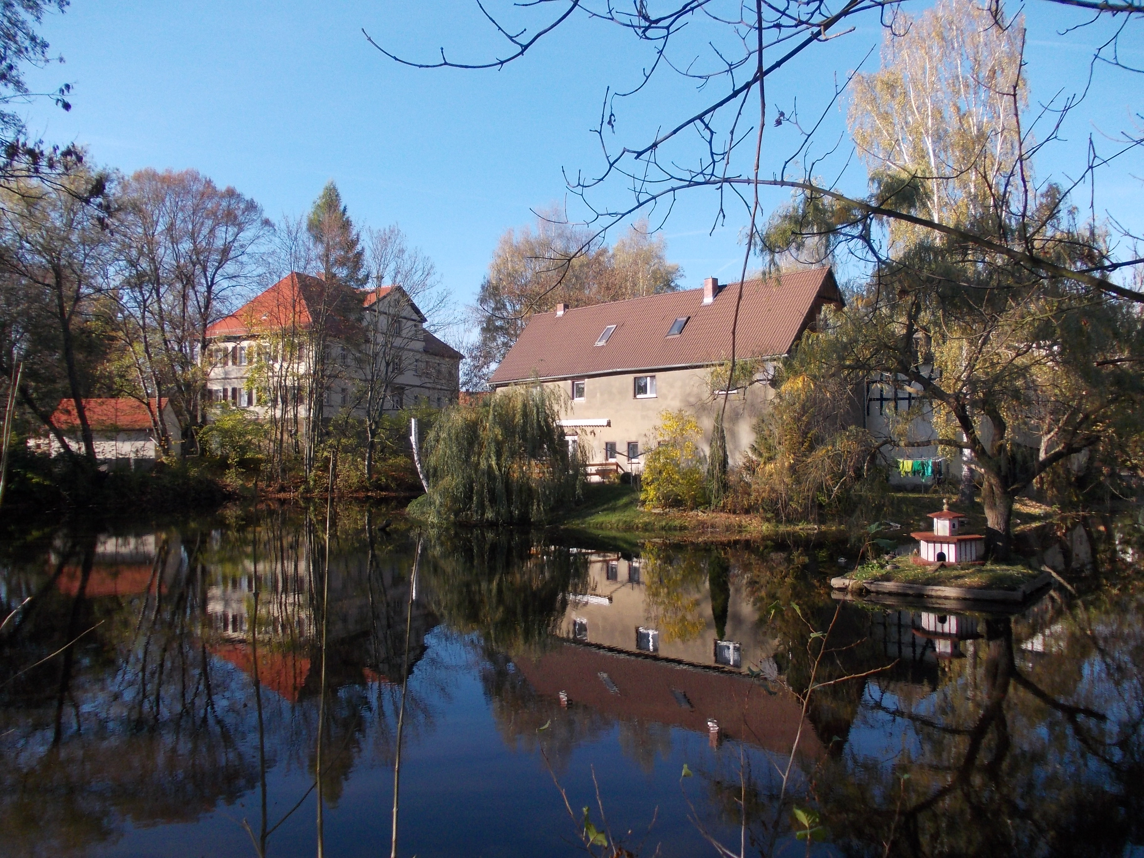 Gladitz estate (Kretzschau, district: Burgenlandkreis, Saxony-Anhalt)